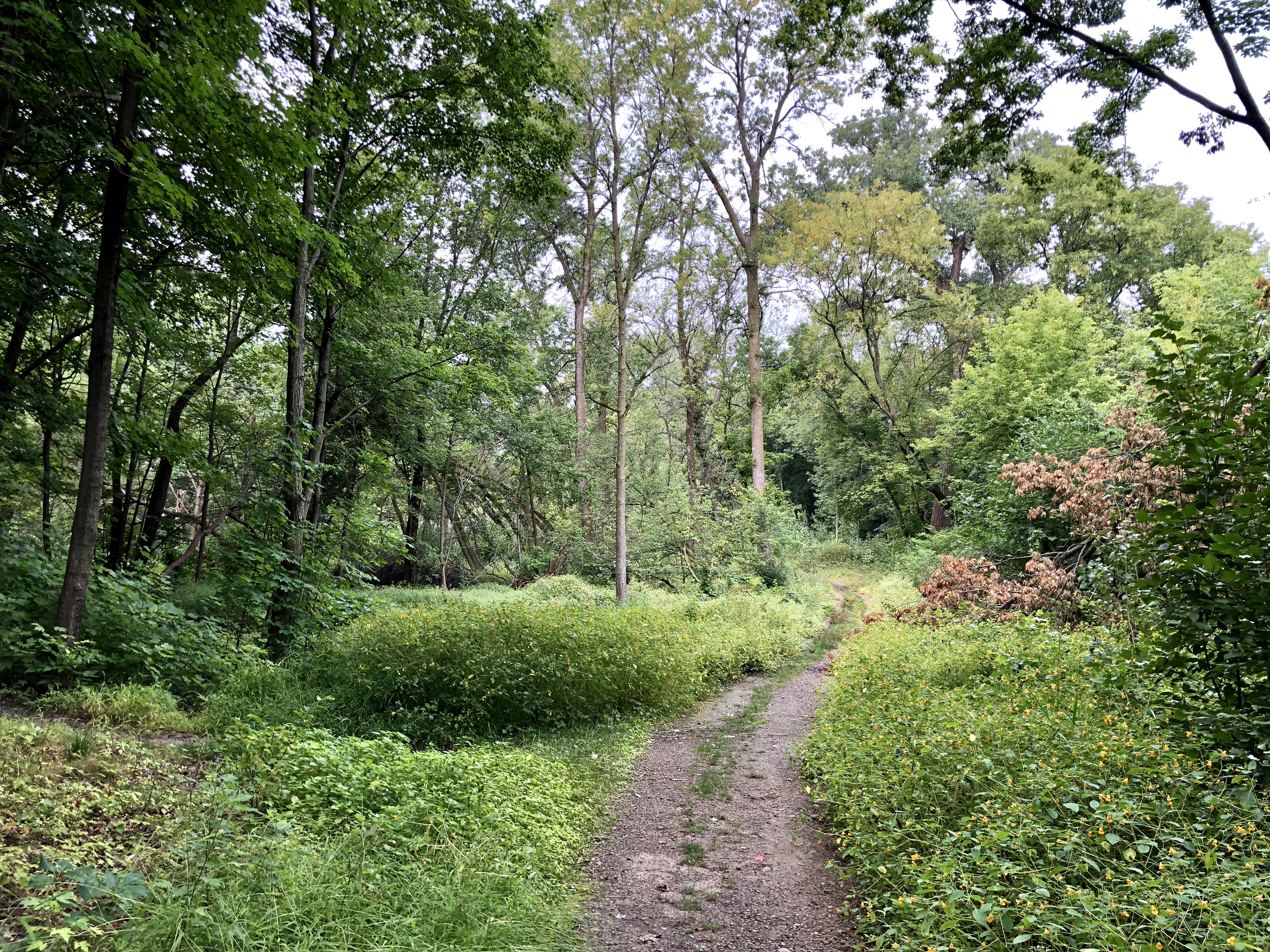 Walking trail within Roberts Bird Sanctuary, Minneapolis MN. Article pending.